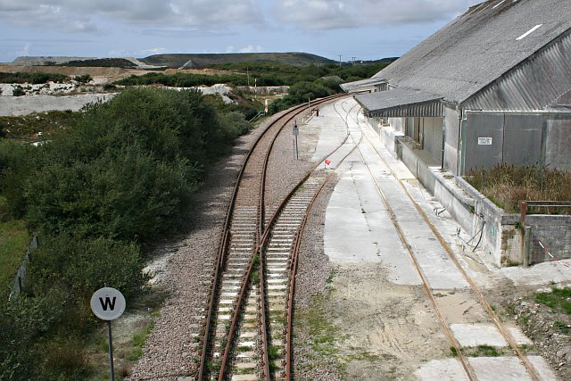 Railway through the China Clay Works. This railway branch line is used only for moving china clay.